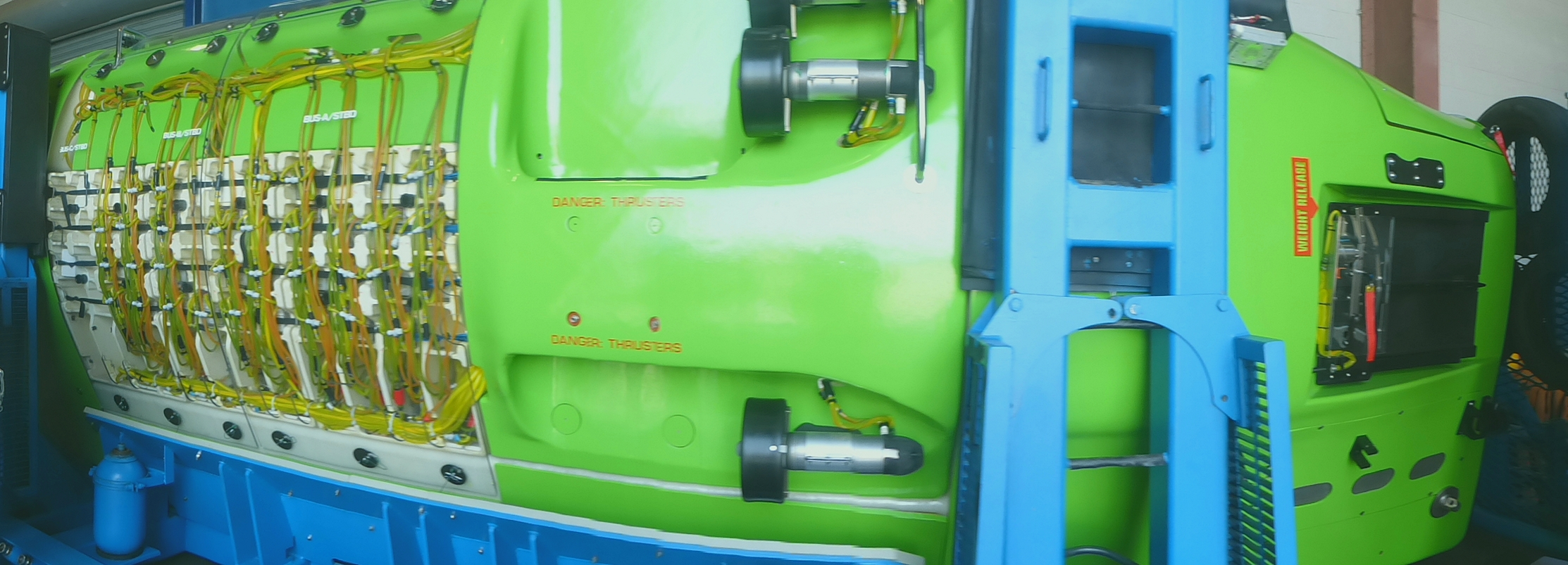 Panorama view of Deepsea Challenger